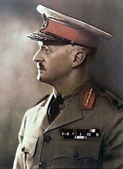 Portrait of Lieutenant General Gordon Bennett, who commanded the Australian 8th Division during the Malayan Campaign